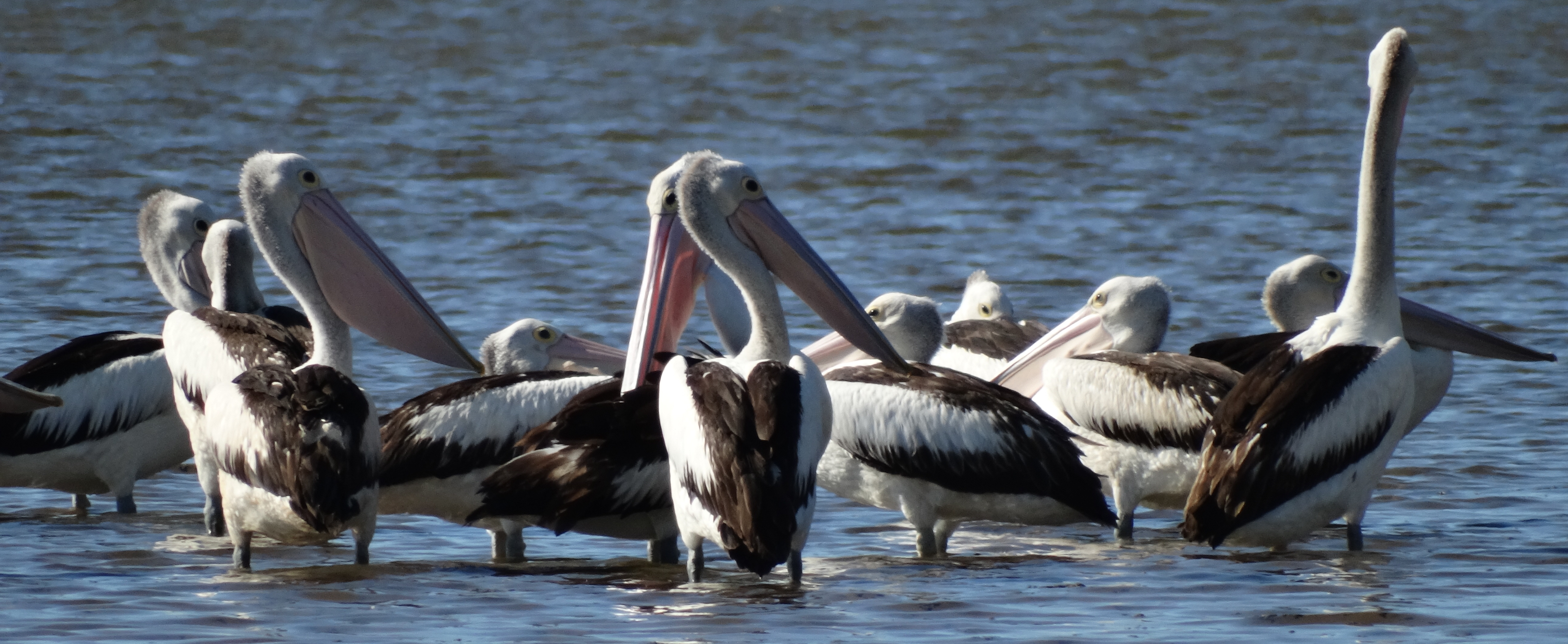 A flock of Australian Pelican- a regular visitor to Timor-Leste in small groups of up to 200 birds, especially on wetlands near Dili and Lake Ira Lalaro